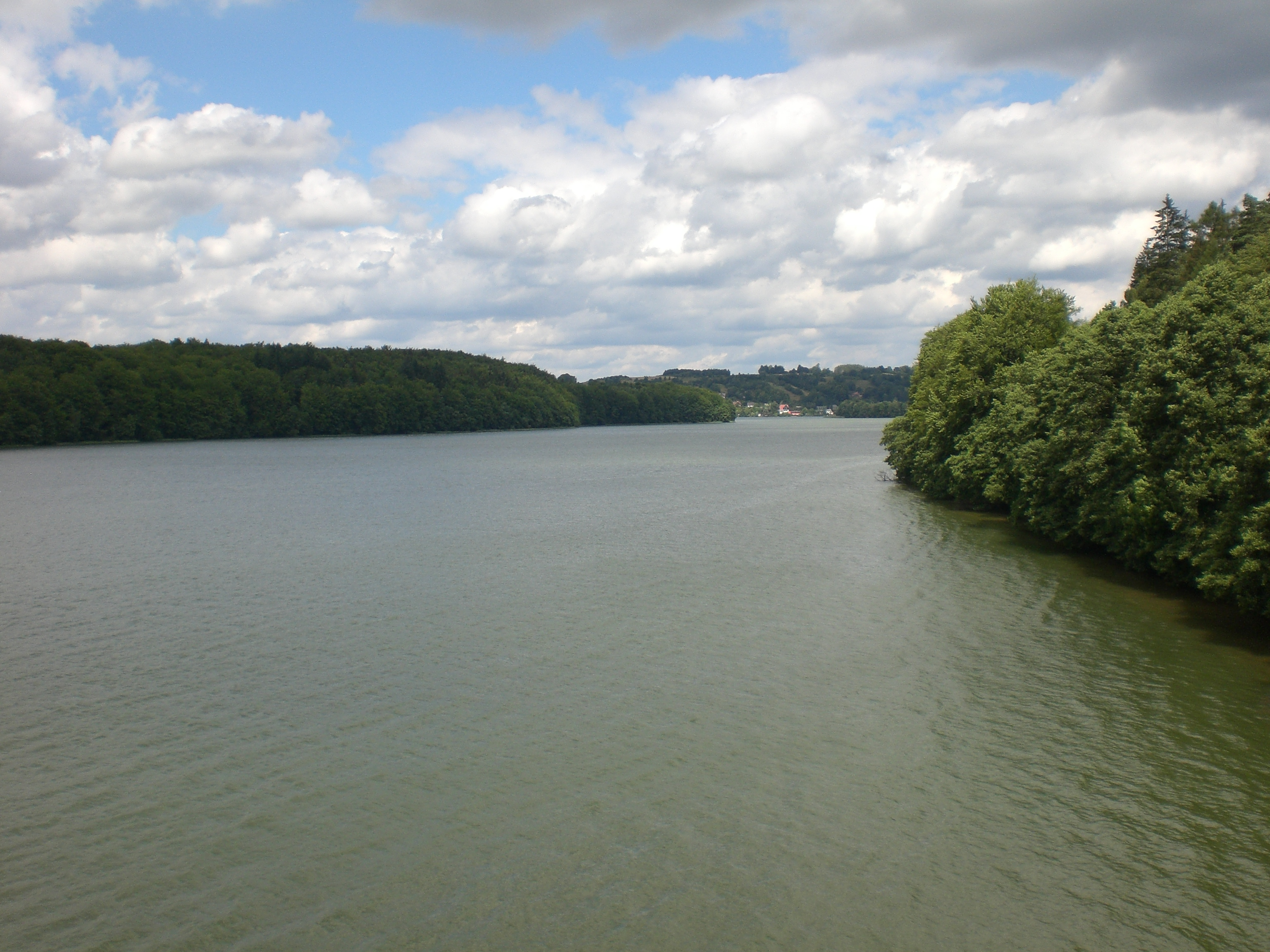 Ostrzyckie Lake - Lake in Kashubian Lakeland in Poland